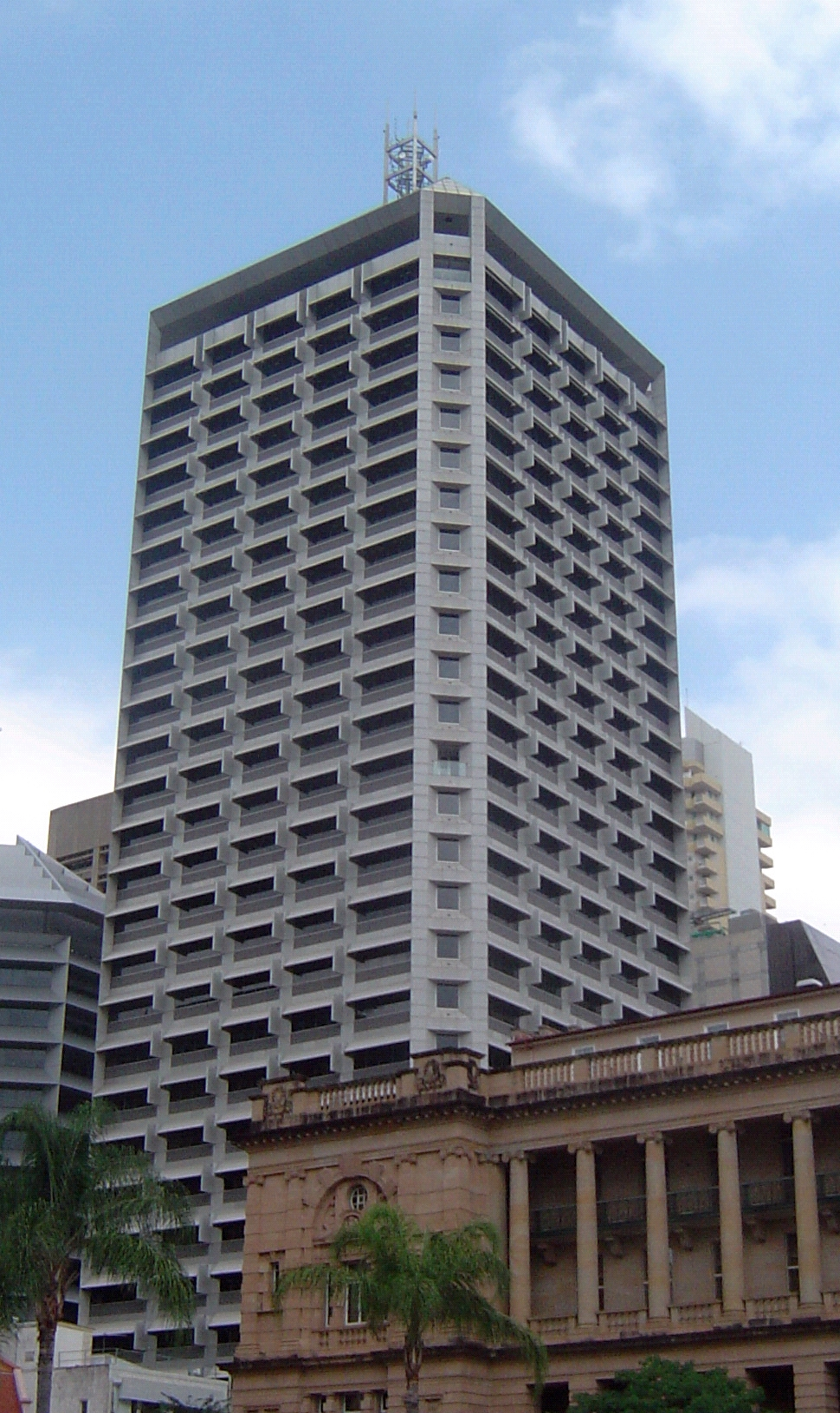 Photograph of 111 George Street skyscraper in Brisbane from Queens Gardens.